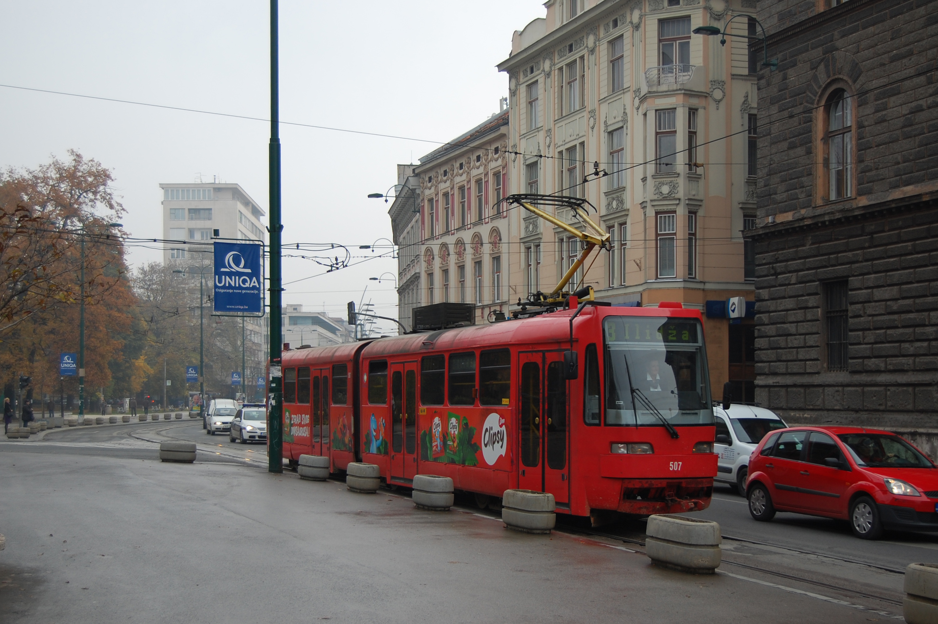 Tram #507 running westbound approaching Park, Line #3, November 8, 2011